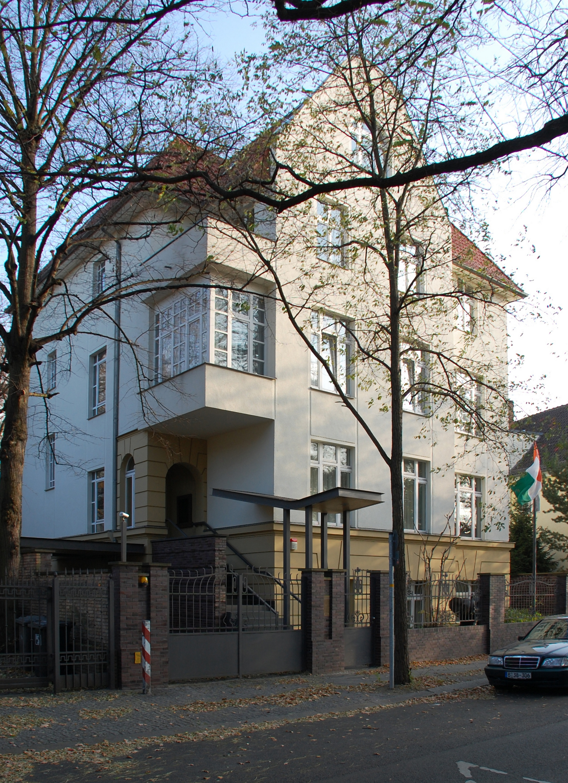 Ivorian embassy in Berlin